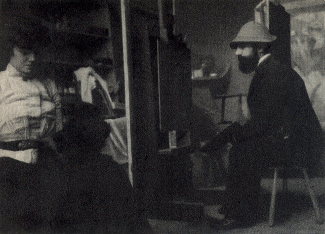 Henri Toulouse-Lautrec and Louise Blouet